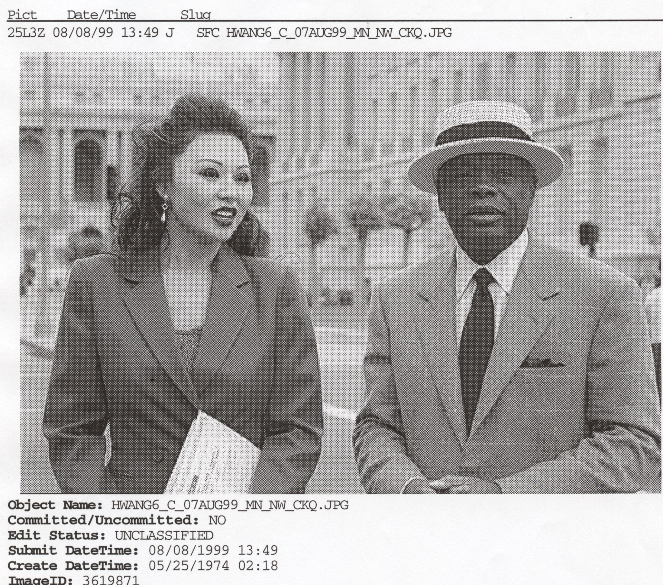 Low Resolution of wire service photo showing Esther Hwang and Willie Brown, 1999 near city Hall